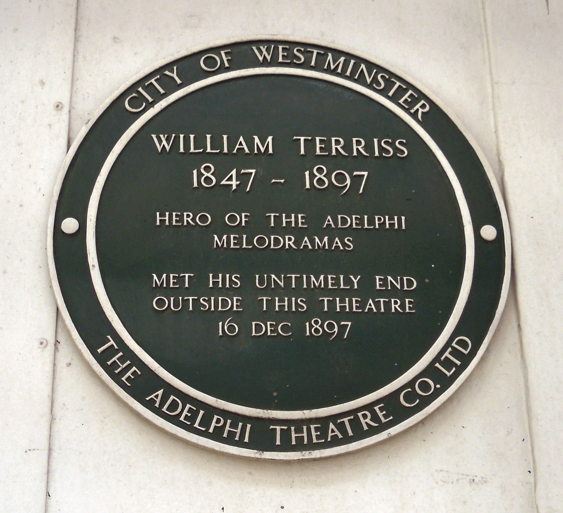 Plaque dedicated to William Terriss beside the stage door of the Adelphi Theatre in London This image represents an Open Plaques entry #1946.